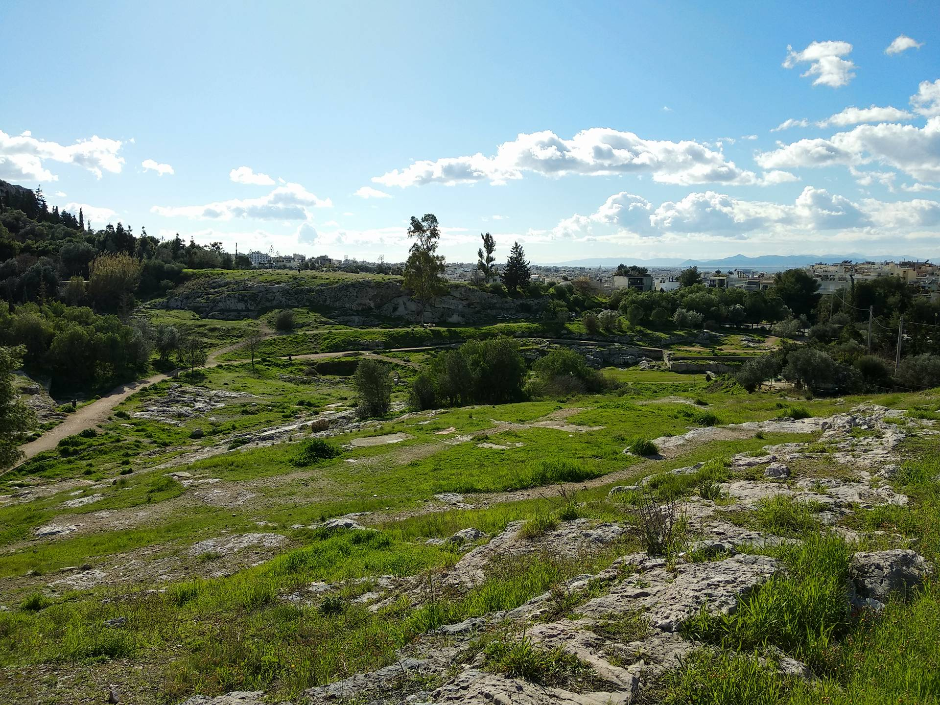 Koile Odos, Demos of Koile, Athens, Greece.